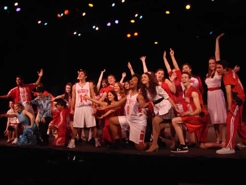 Cast of Pacific Repertory Theatre's School of Dramatic Arts production of Disney's High School Musical Author & source: Stephen Moorer